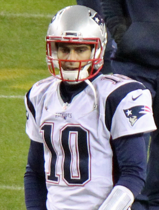 Jimmy Garoppolo, a player on the National Football League.